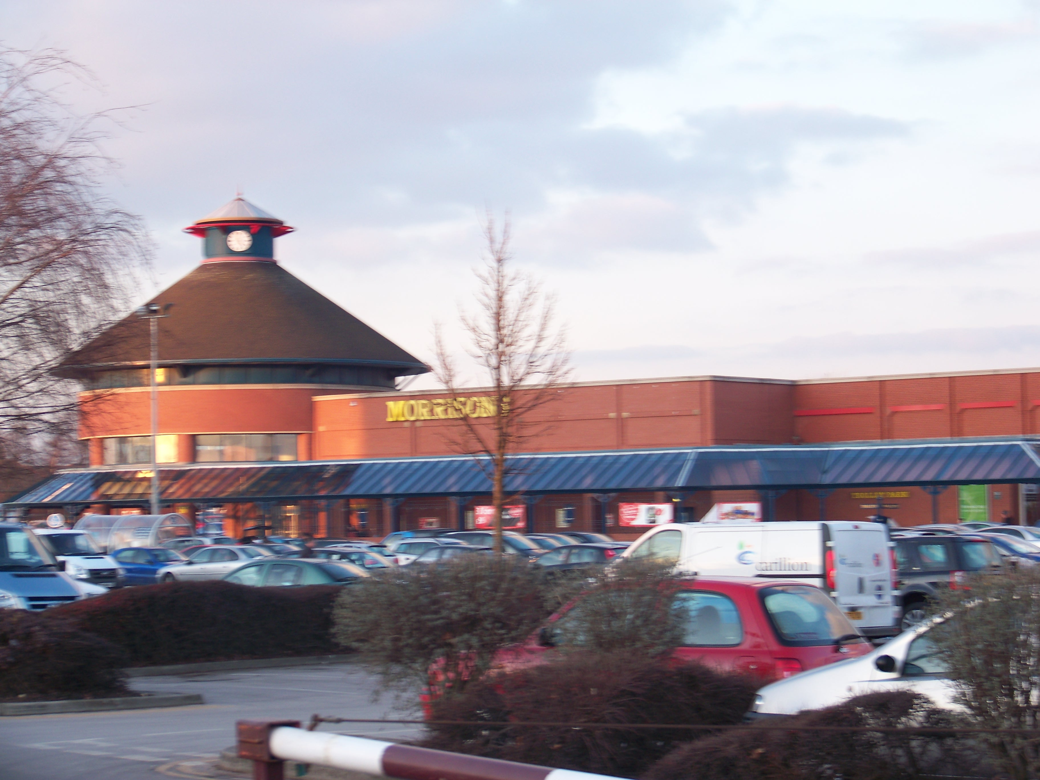 Morrisons at the Penny Hill Centre in Hunslet, Leeds. Taken from The Oval on the afternoon of Saturday the 20th of February 2010.